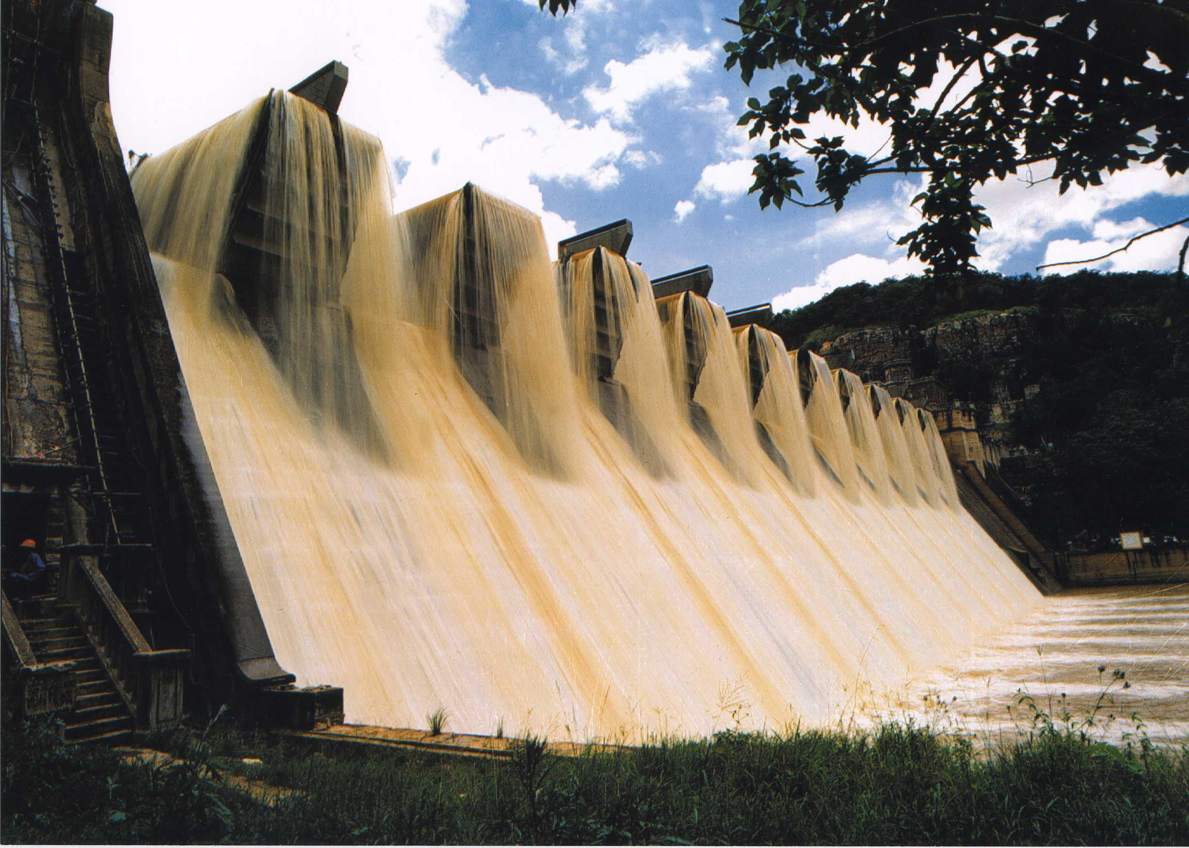 Shongweni spillway equiped by fusegates during flood